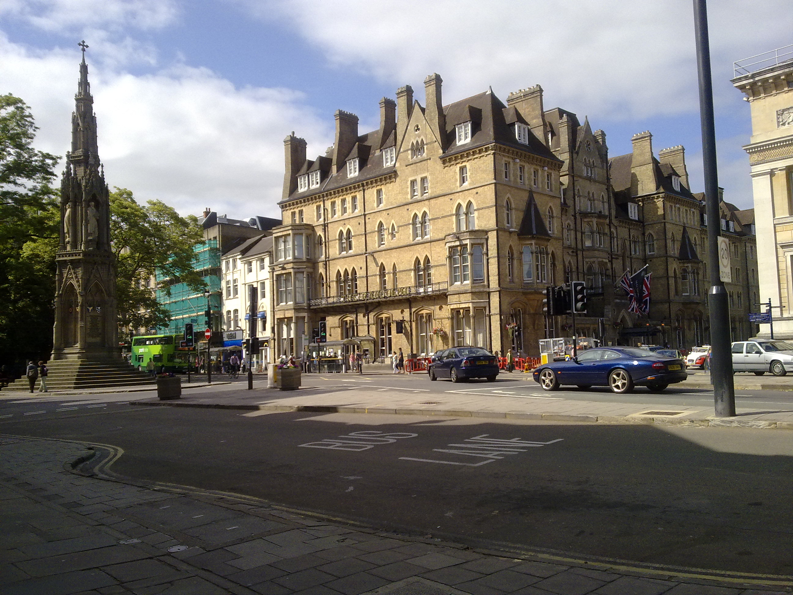 The Randolph Hotel, looking south from Giles Street.